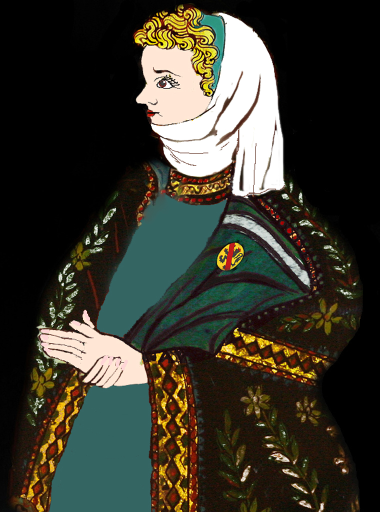 Isabella of Luxembourg, Countess of Flanders